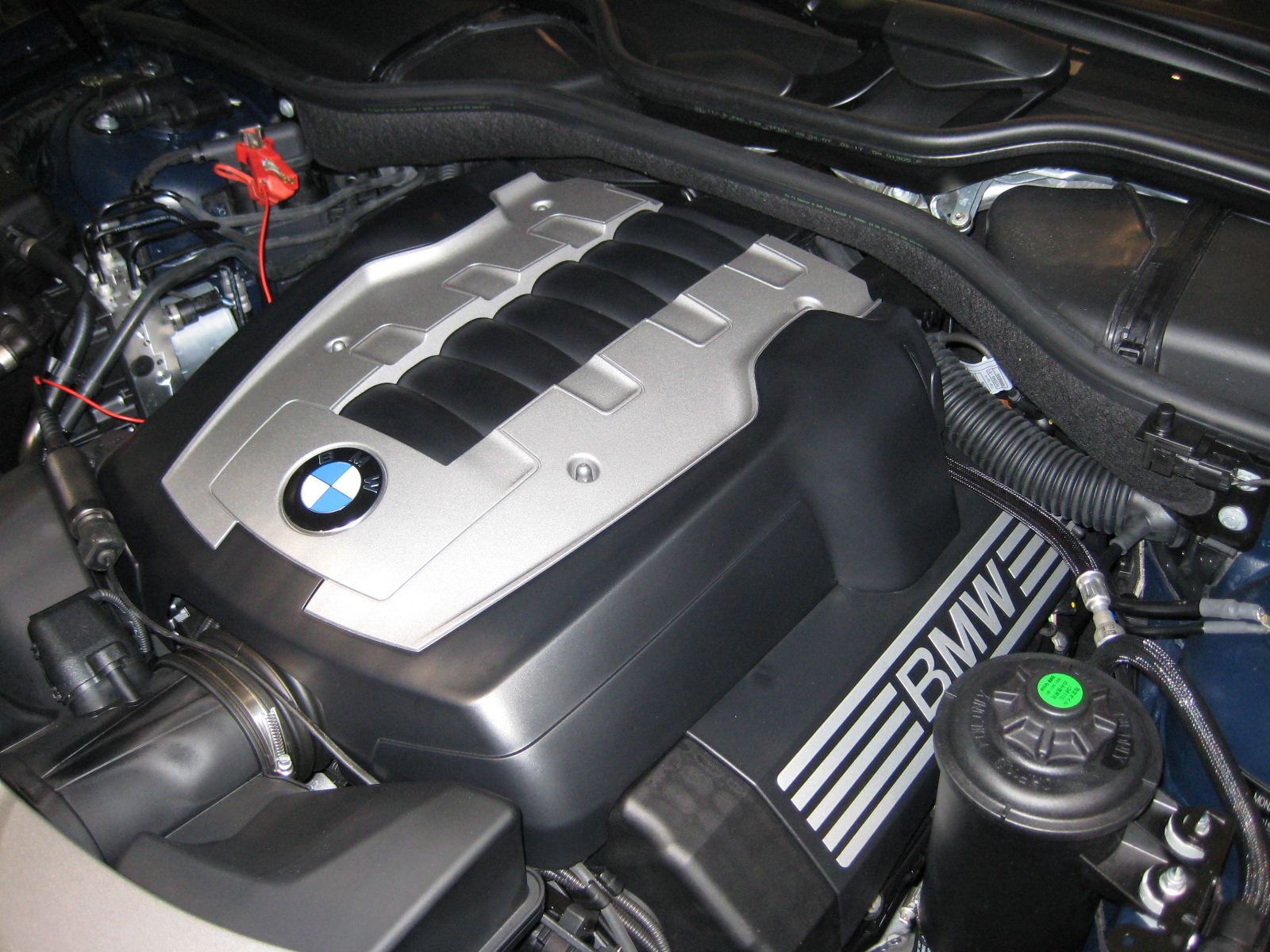 BMW N62B48B 4.8L V8 Engine on BMW E65 750i